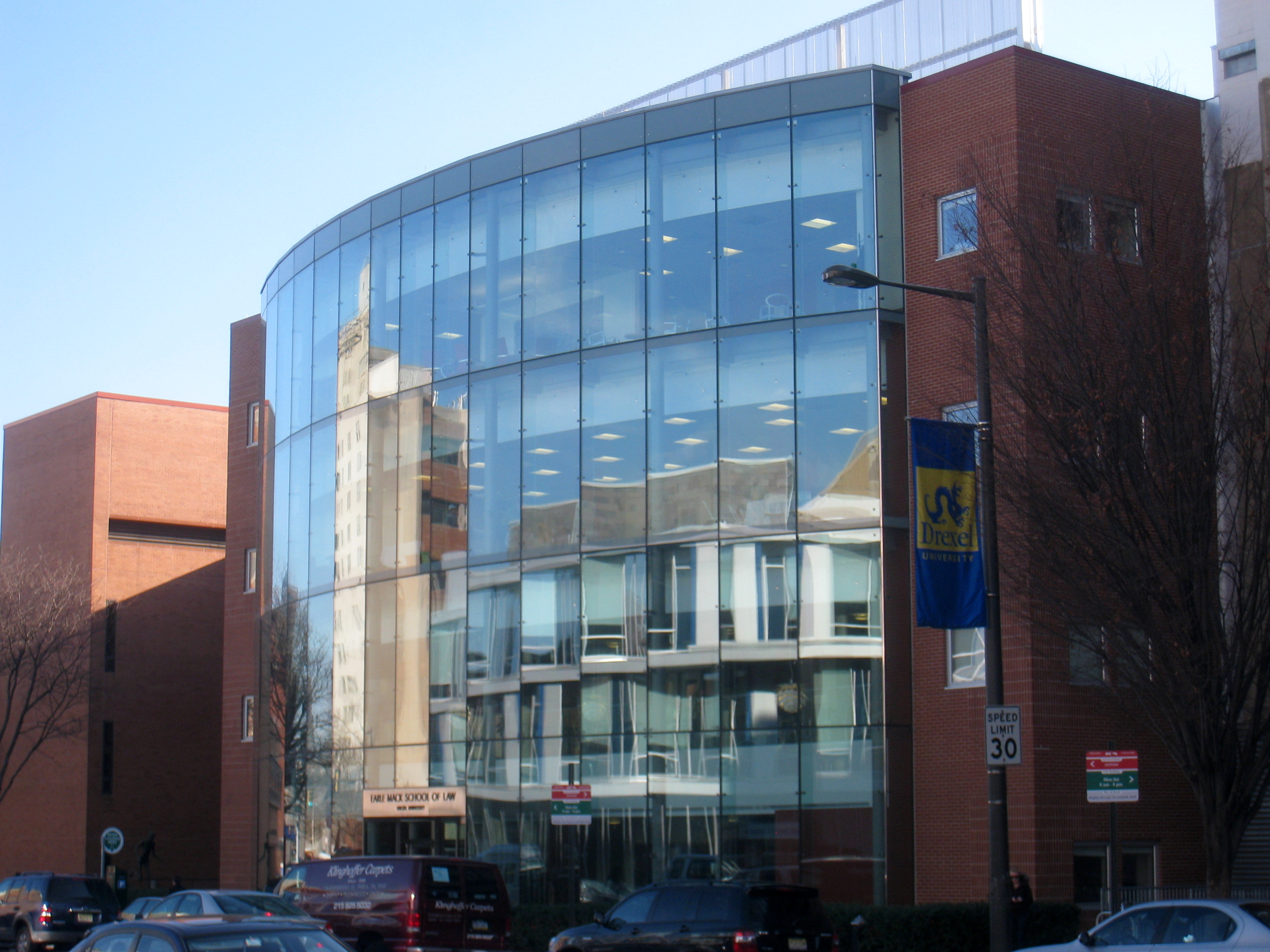 Earl Mack School of Law, Drexel University, 3320 Market Street, Philadelphia , Pennsylvania, USA.